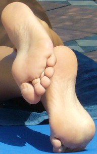 female foot soles